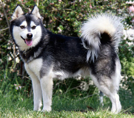 4 year old BIS winner Kukai, a standard, black and white Alaskan Klee Kai